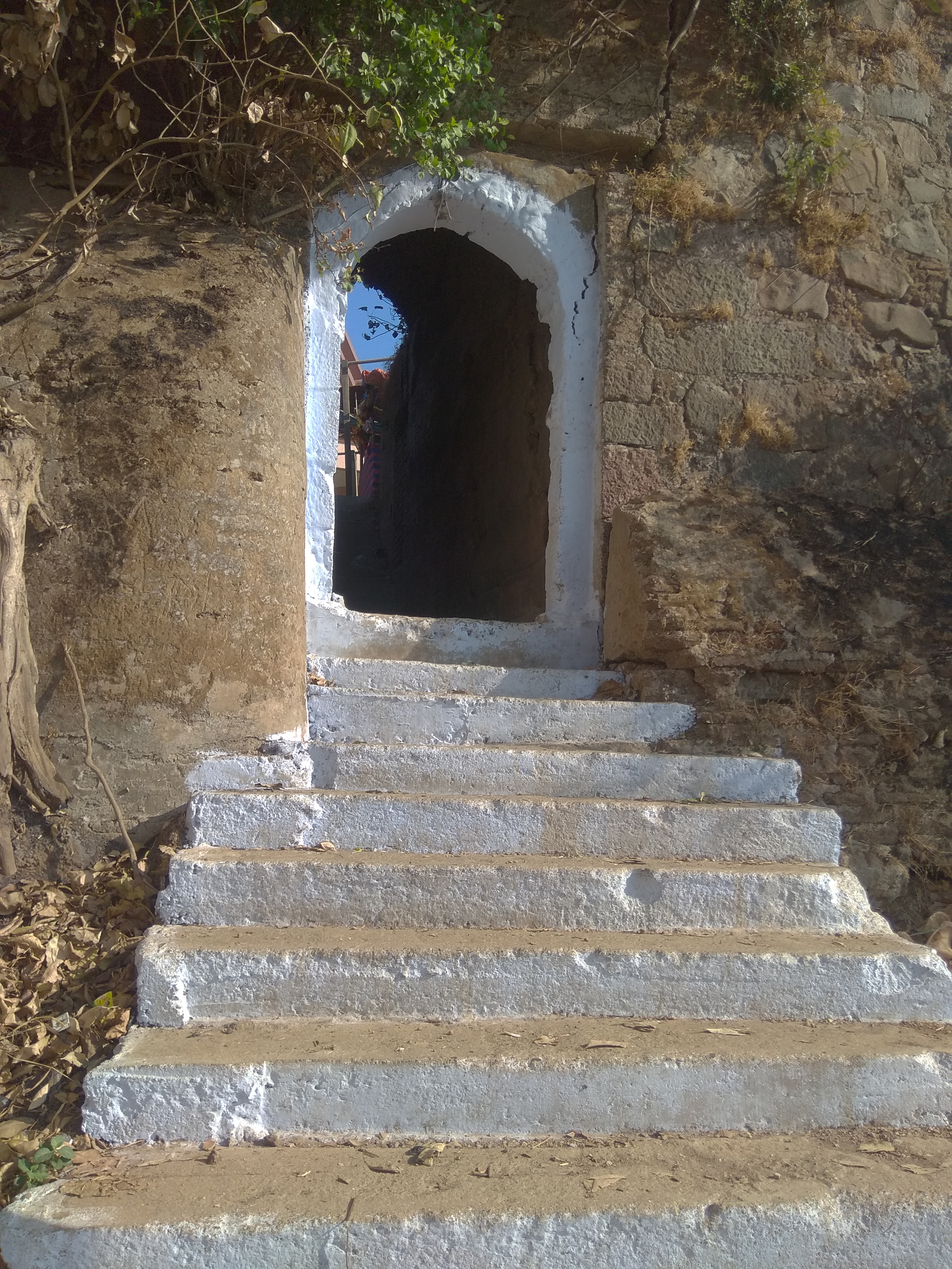 Hidden Passage from where Shivaji jumped away with his horse from the fort.